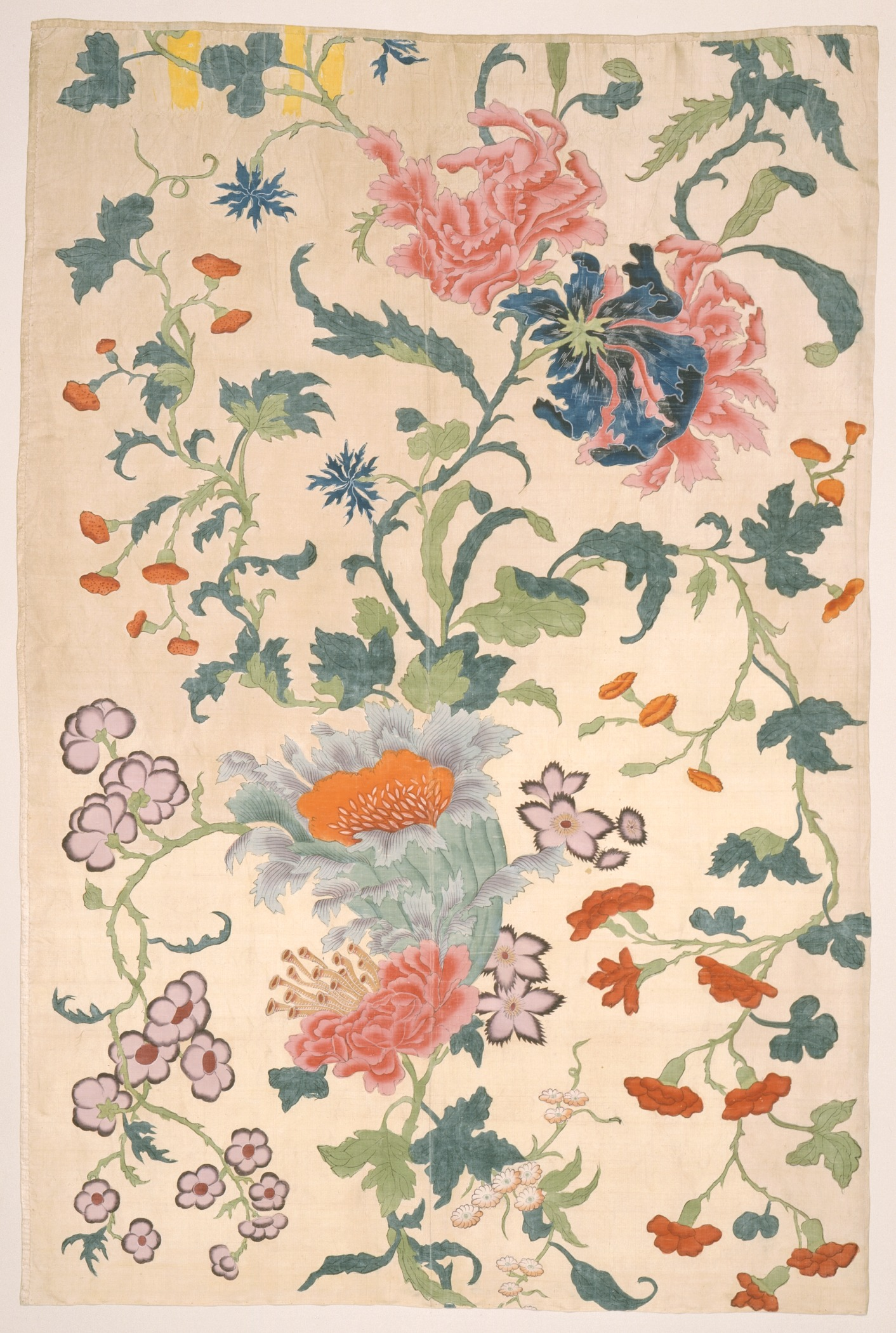 China, mid-18th century Textiles; panels Painted silk Costume Council Fund (M.63.55.2) Costume and Textiles